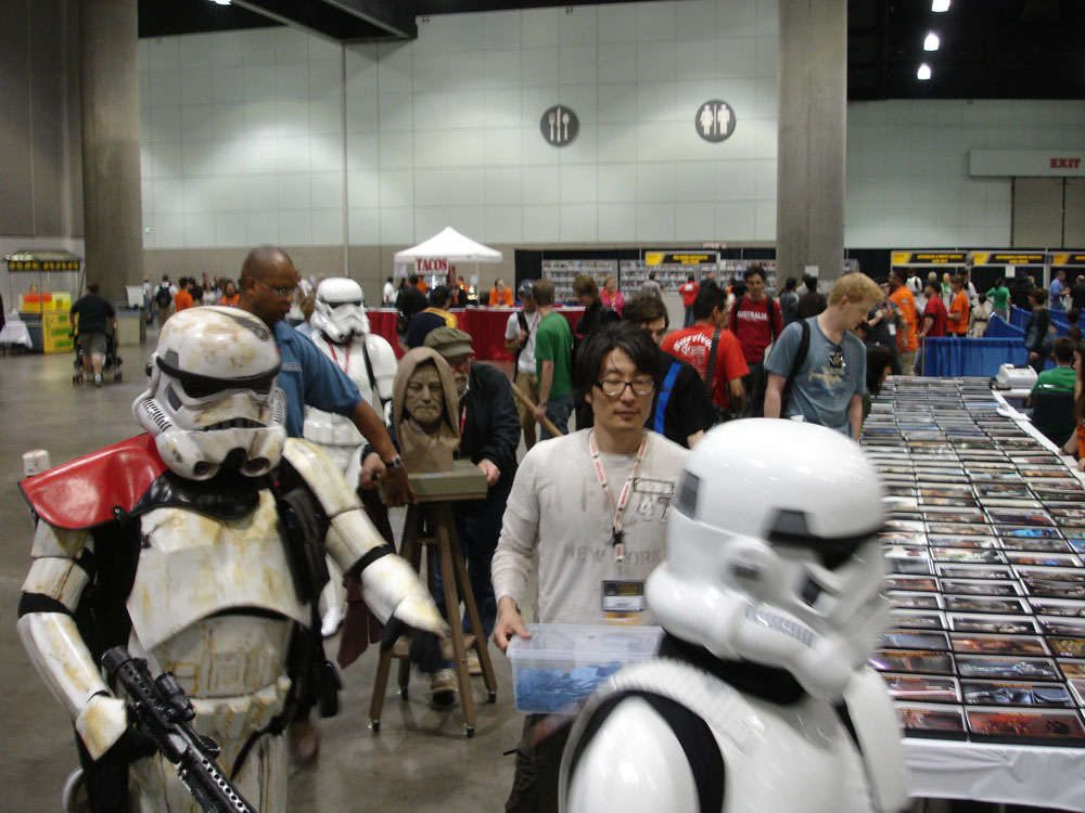 Star Wars Celebration IV - The 501st legion guards the Obi-Wan bust I won as sculptor Lawrence Noble returns it to the booth